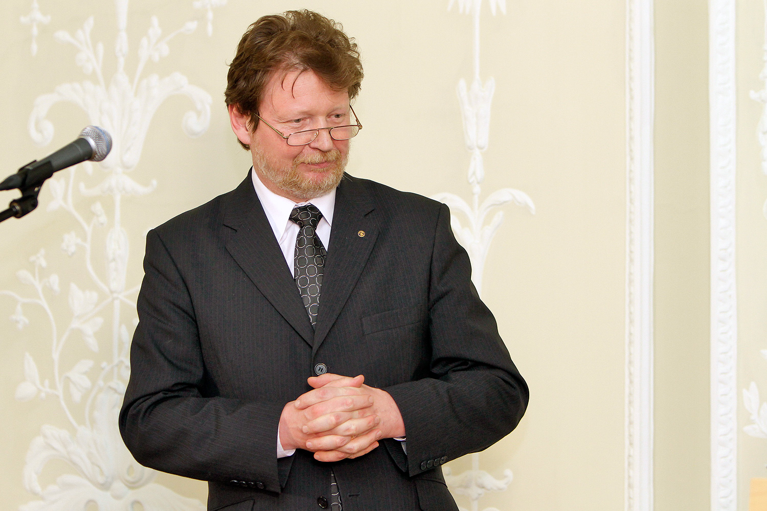 Director Rimantas Teresas